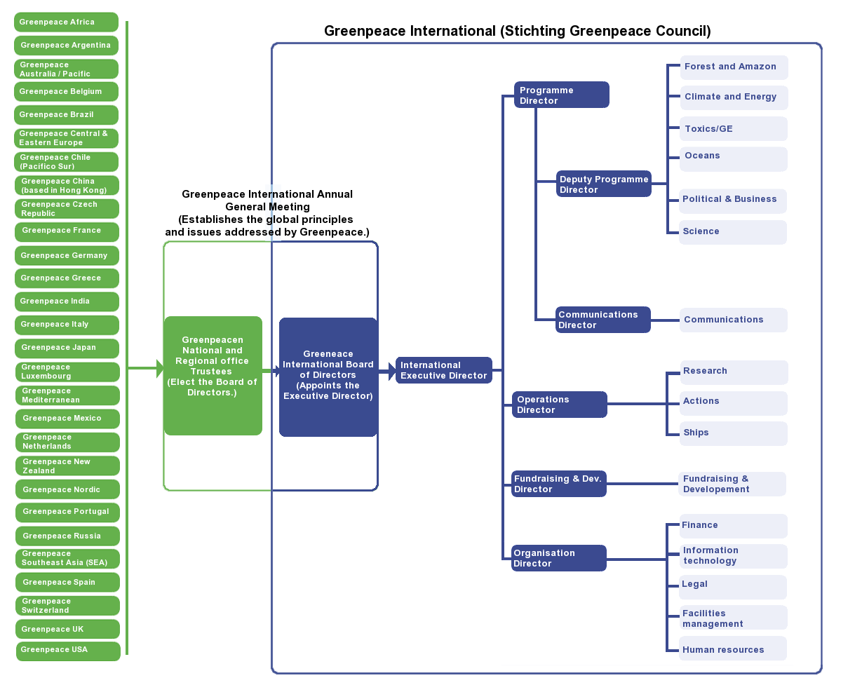 Greenpeace International Governance & Management structure. Sources: GPI Annual Report 1996, p. 16[1]; Greenpeace International, Governance Structure[2]; Greenpeace International, Management Structure[3]; Greenpeace International, Greenpeace worldwide[4]